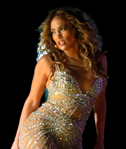 Jennifer Lopez live at the Pop Music Festival in São Paulo, Brazil (June 2012).